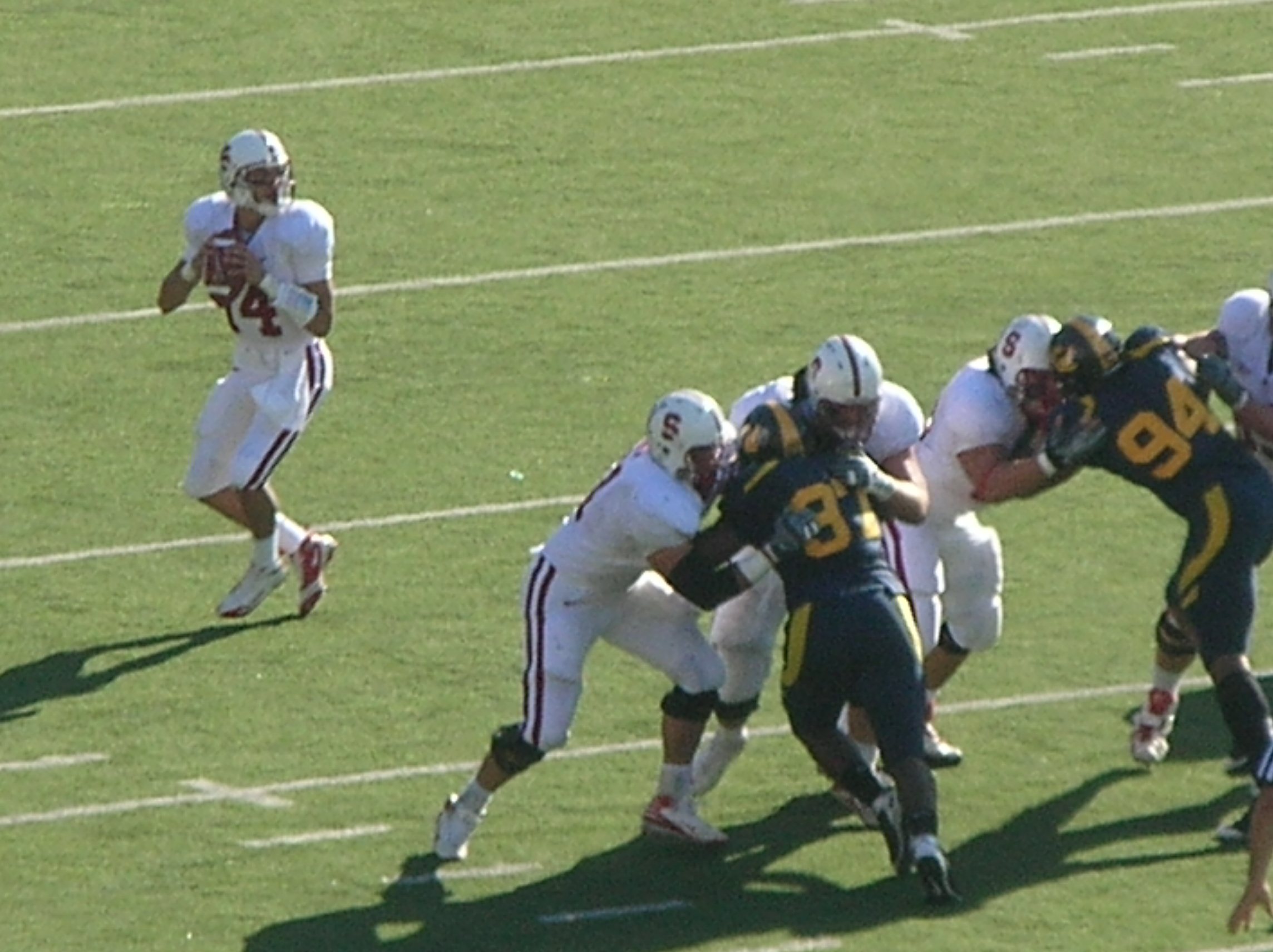 Stanford quarterback Tavita Pritchard (#14) looks to pass during the 2008 Big Game at California Memorial Stadium. The Golden Bears won 37-16.